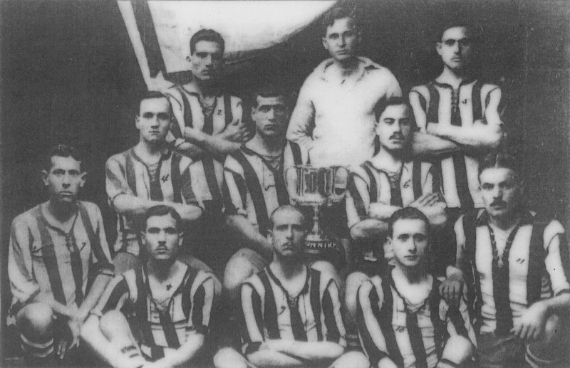 Apollon Smyrna or Apollo Smyrni Greek Football Team 1919